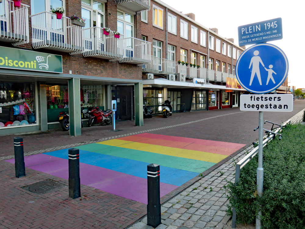 Rainbow pedestrian crossing at Plein 45 in IJmuiden, the Netherlands